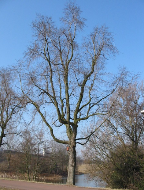 Ulmus hollandica 'Christine Buisman', amsteldijk amsterdam; Photo by R. Nijboer